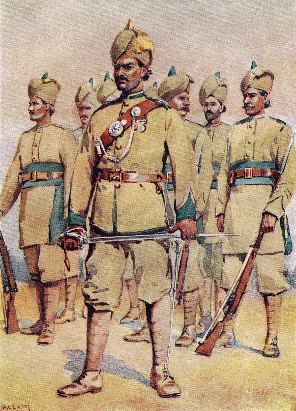 The 33rd Punjabi Army (A Picture of a Commander: A Punjabi Subadar) Painting is before 1923.